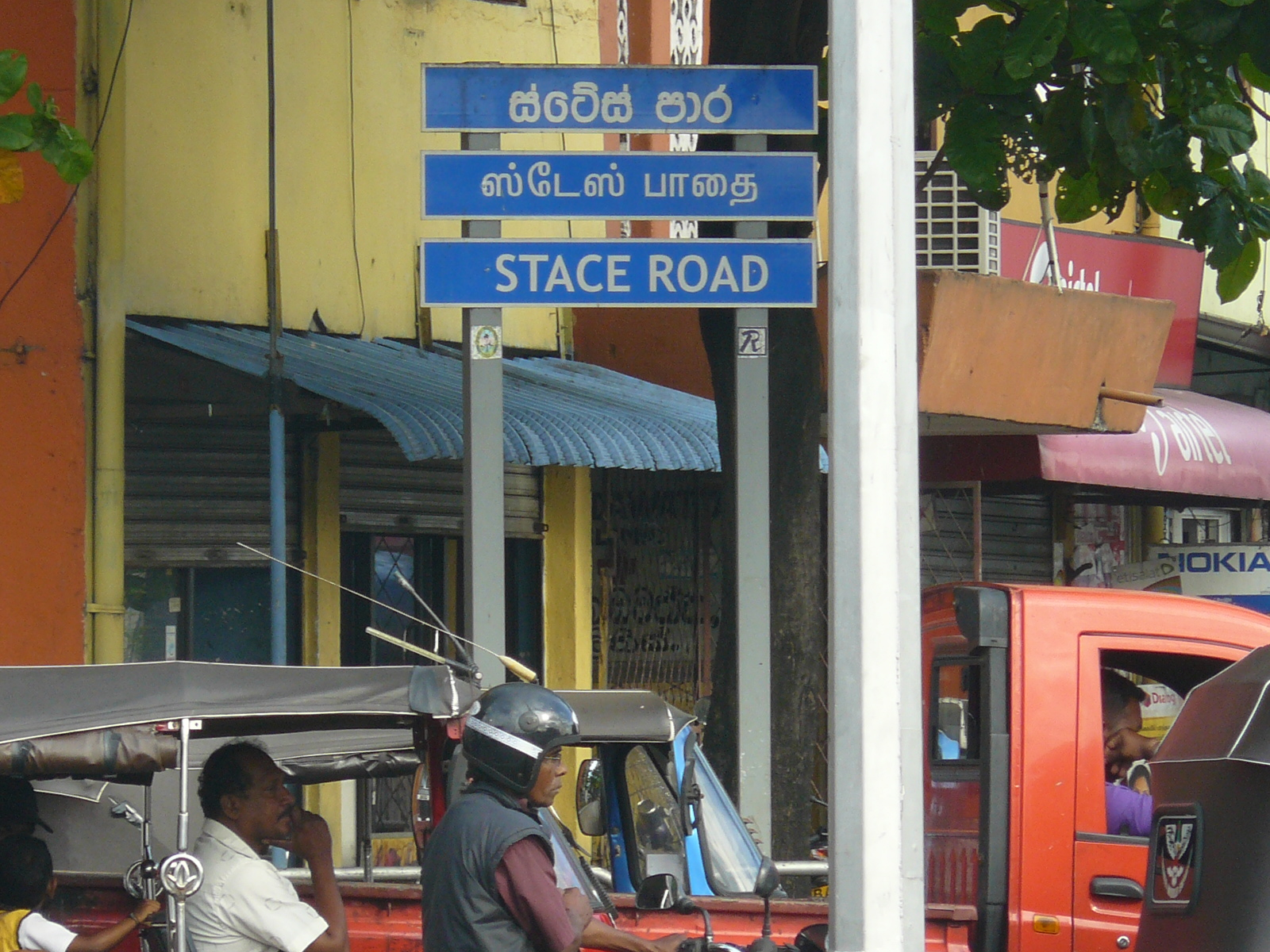 Stace Road in Colombo, Sri Lanka. The street named after the British Civil Servant and Princeton Philosopher who was mayor of Colombo